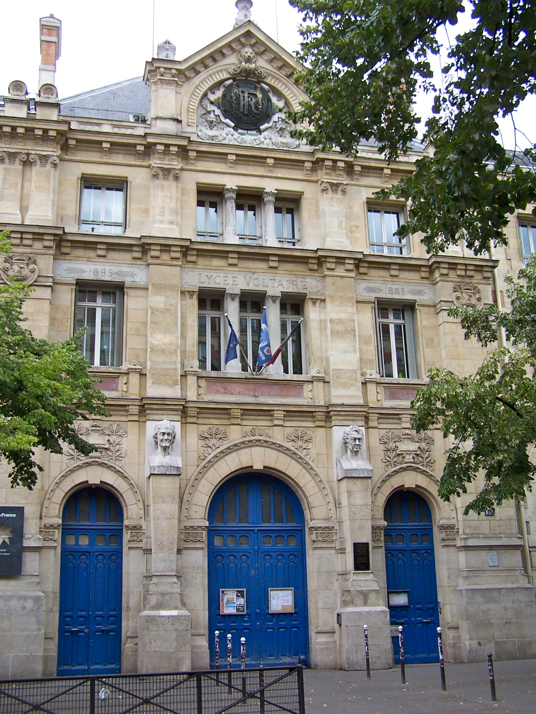 Entrance of the lycée Voltaire, located at 101 avenue de la République in Paris